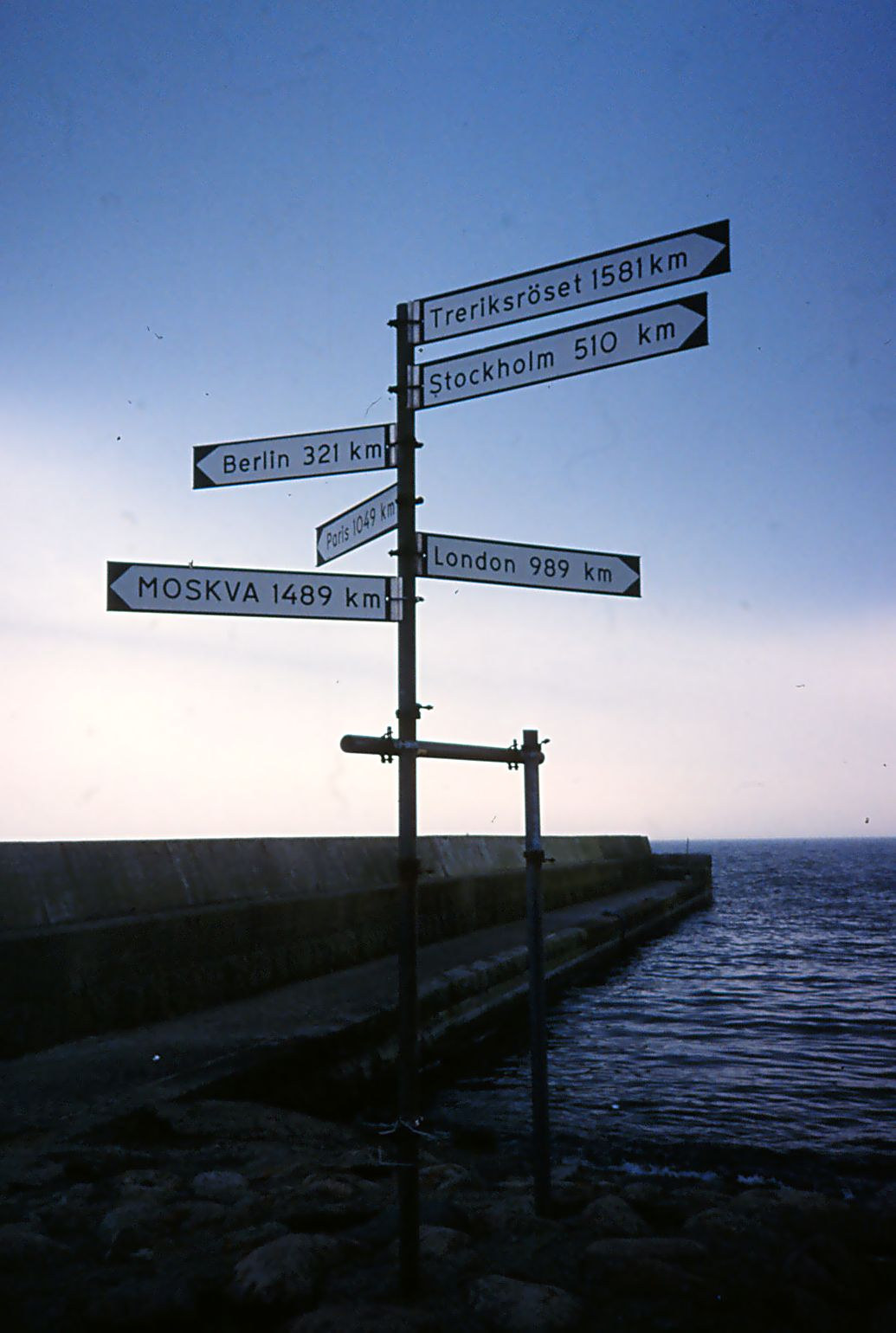 Signs at Smygehuk, the southernmost place in Sweden. June 15, 2002.